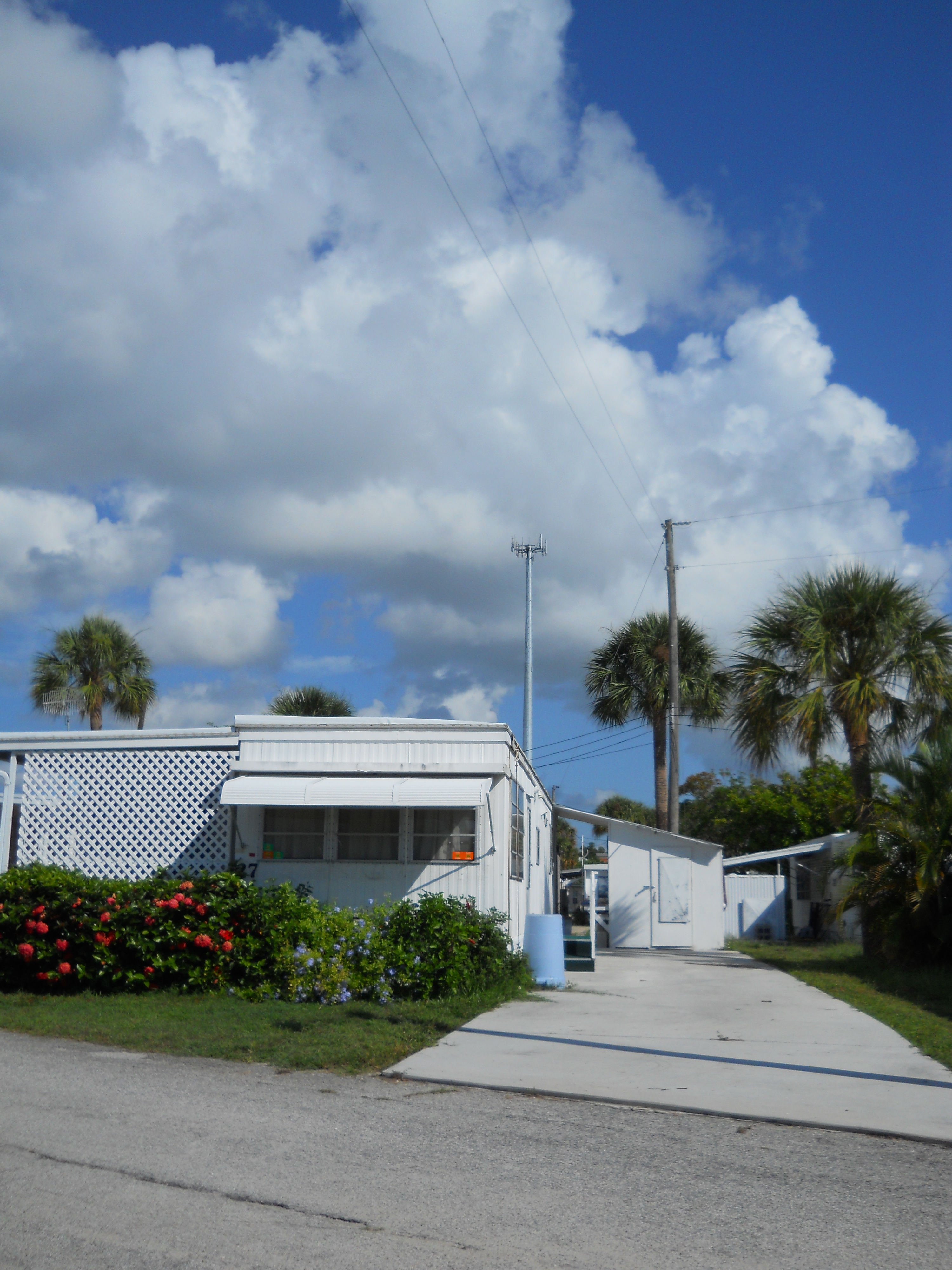 Key Lime Drive at intersection of Kumquat Drive: mobile homes with Ocrean Breeze cell phone tower in distance